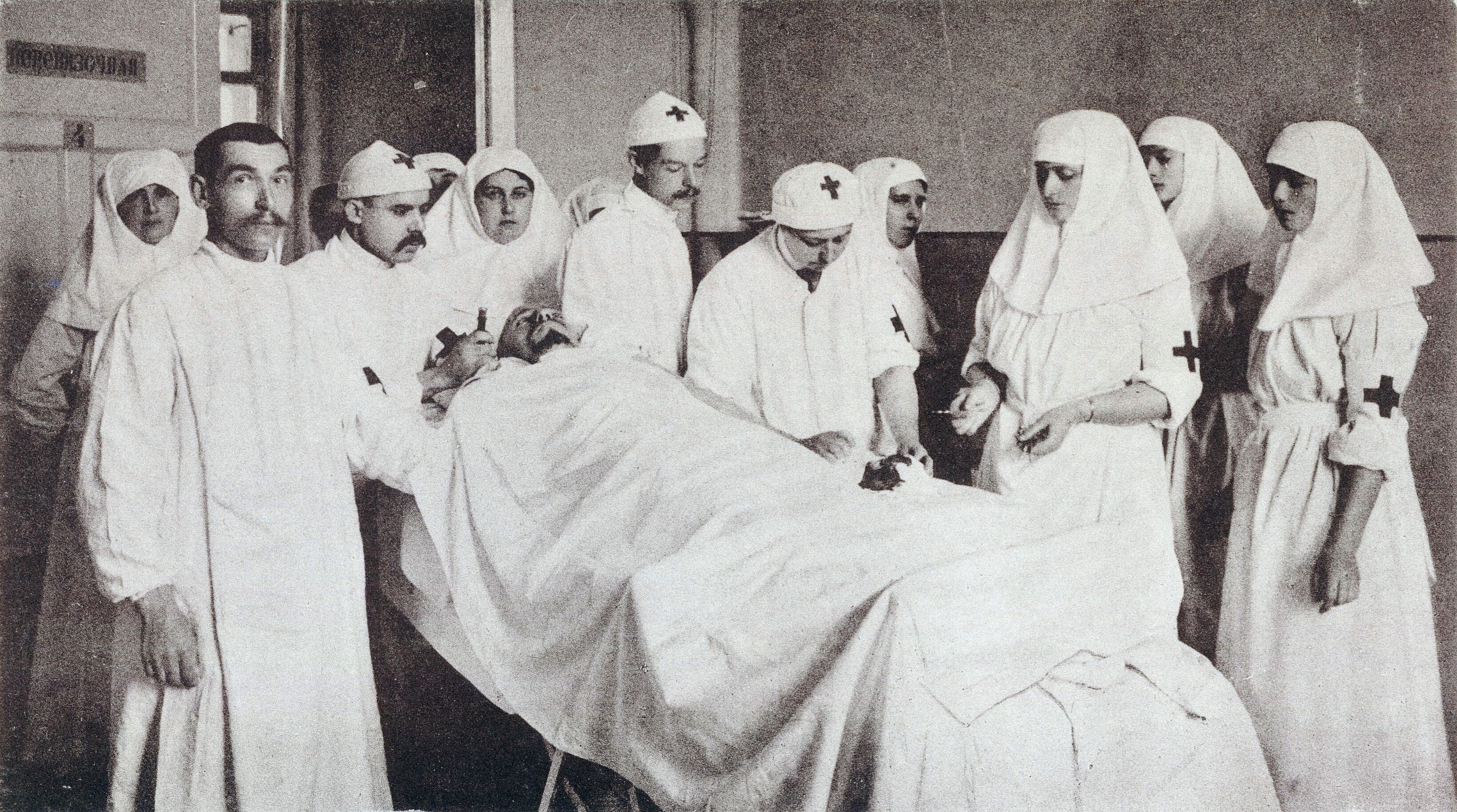 Empress Alexandra delivers instruments during surgery. Behind are the Grand Duchesses Olga and Tatiana. Princess V. I. Gedroitz operates. 4th left A. Vyrubova.Original description: Anna, the Empress, Tatiana and Olga in an operating room.